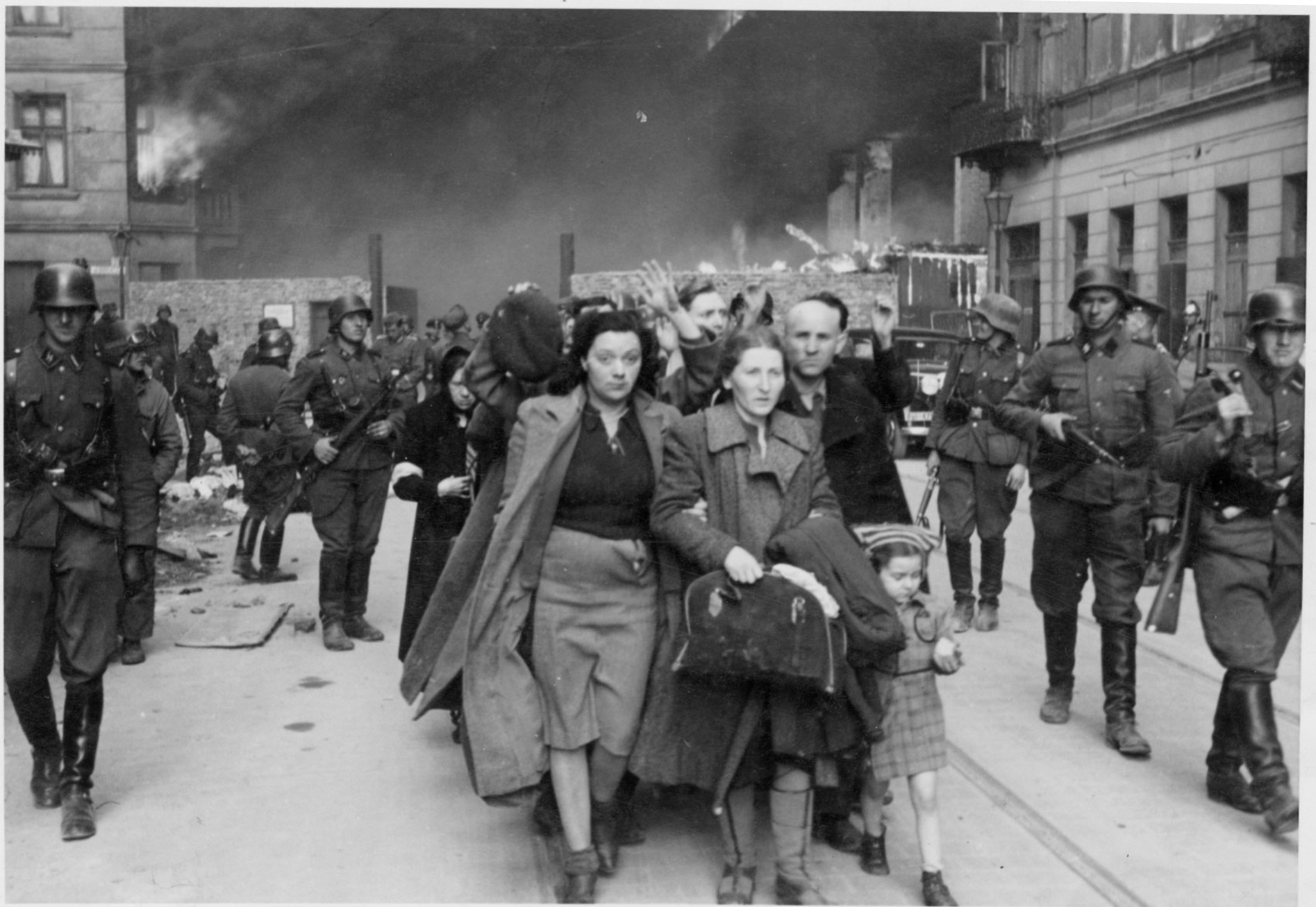 Suppression of Warsaw Ghetto Uprising - Captured Jews are led by German Waffen SS soldiers to the assembly point for deportation (Umschlagplatz).